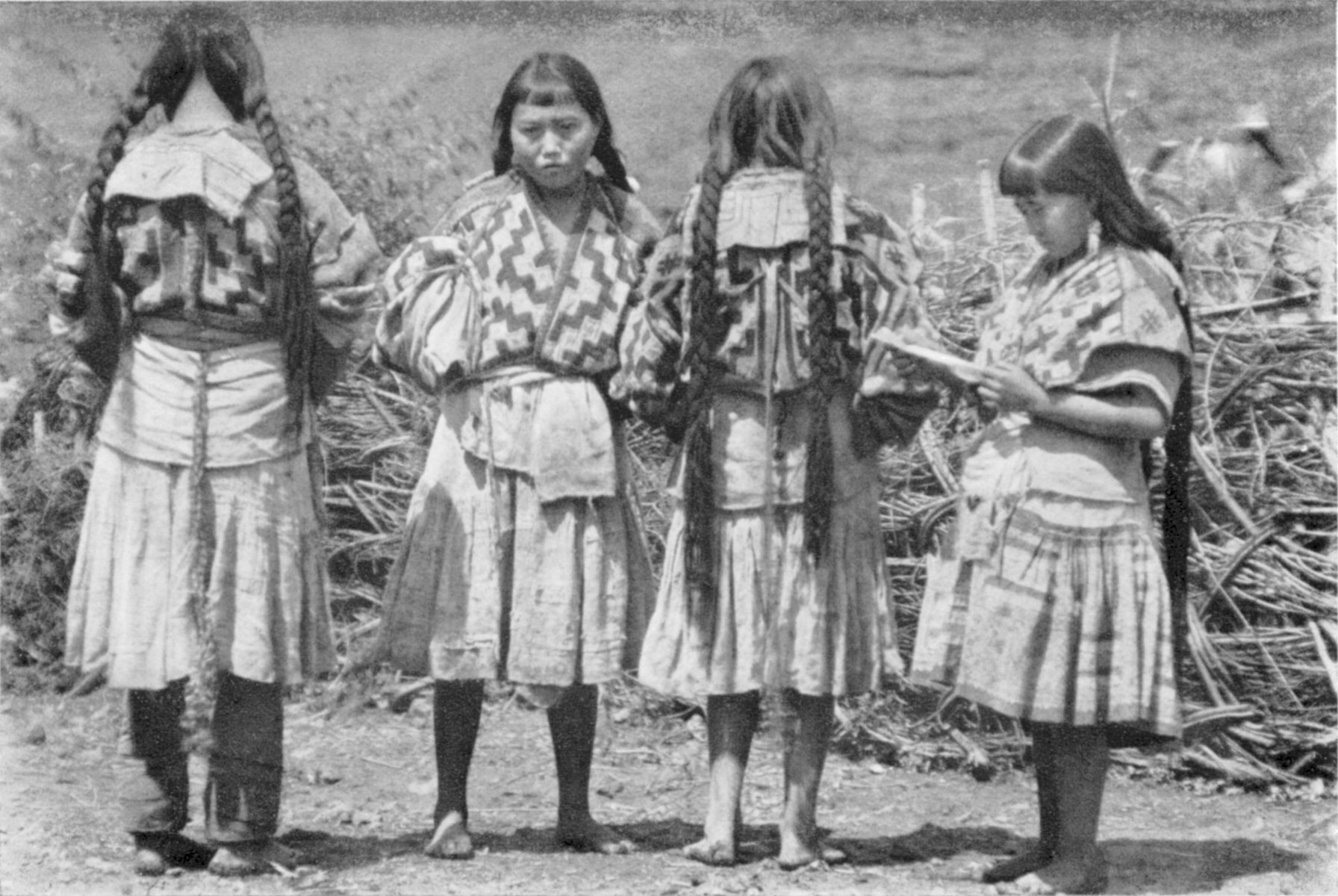 Nosu girls. As they not wear shoes their feet harden, and when the skin splits it is a common practice to patch them up with needle and cotton.